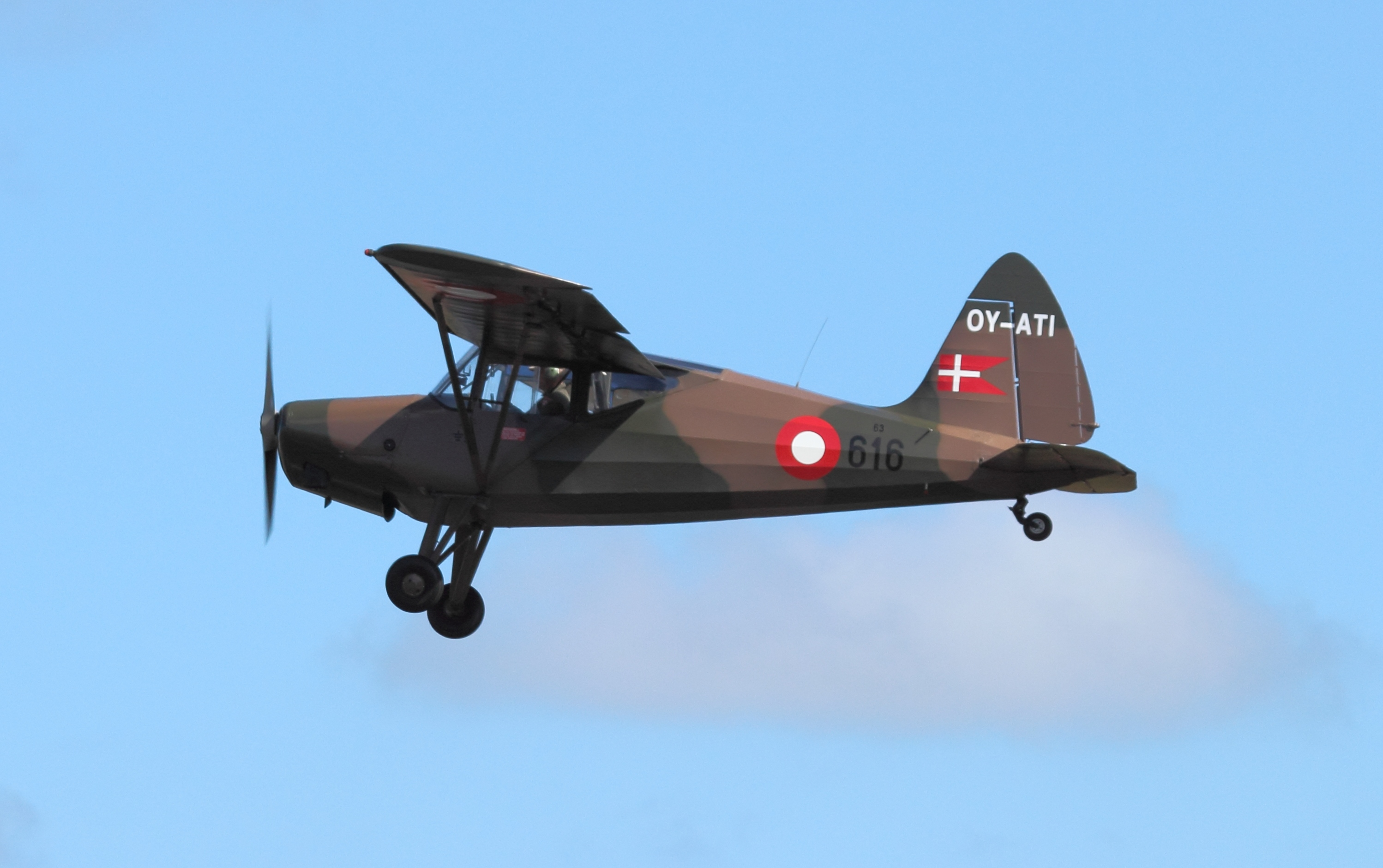 A KZ VII Lark with registration number OY-ATI in display flight at Danish Air Show 2014